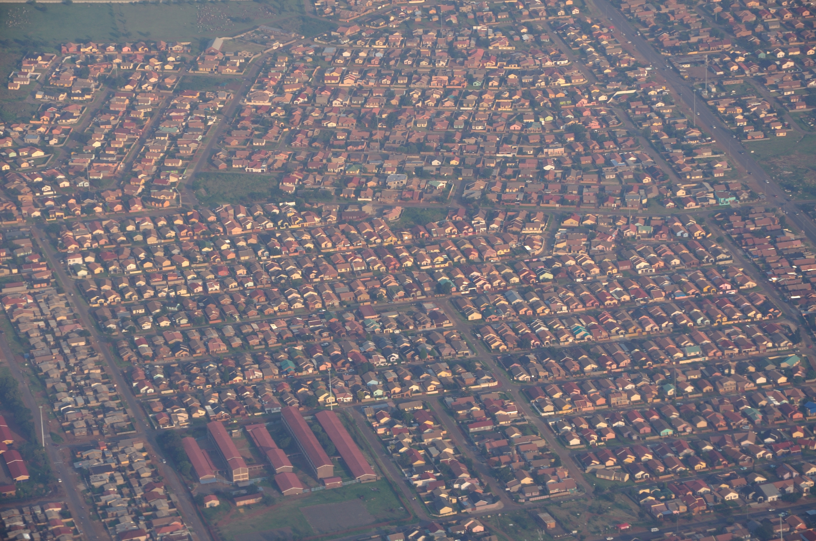 South Africa, imperssions of a flight from Durban to Johannesburg (for exact location see geodata)